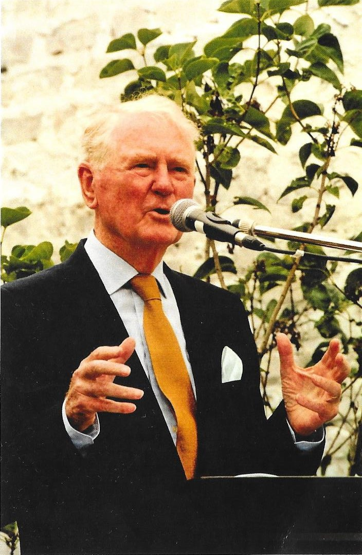 Dr. Robert Pannier